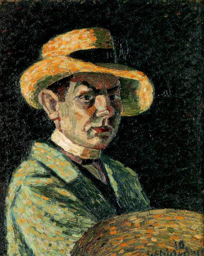 Selbstbildnis